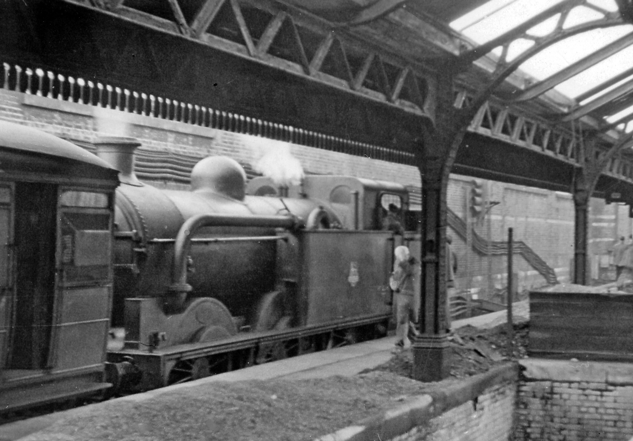 Ludgate Hill Station (remains), with RCTS Rail Tour. View northward, towards Holborn Viaduct, Snow Hill Tunnel and Farringdon; ex-London, Chatham & Dover and Metropolitan 'Widenend Lines' (MWL), cross - London route. The station had been closed since March 1929 and at the time of the photograph (1954) only cross-London freight trains and SR local trains to Holborn Viaduct passed there. Here on 10/10/53, the Railway Correspondence & Travel Society London Area Rail Tour has stopped briefly on its complex route, which inluded Battersea - Kentish Town via Blackfriars Bridge and the Snow Hill Tunnel, with ex-GN N1 0-6-2T No. 69441. The island platform of Ludgate Hill station was removed in 1974 and since 1990 the present City Thameslink Station has occupied the site.